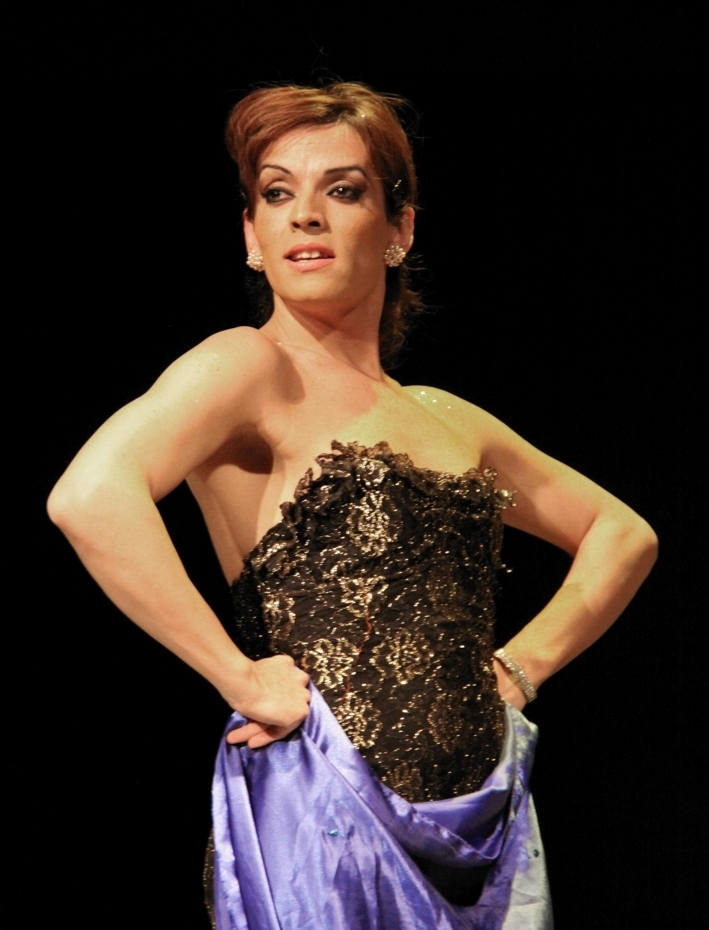 "Evocaciones dramáticas sobre Tita Merello y Billie Holiday - Llórame un río". Obra de teatro con la actuación de Camila Sosa Villada bajo la dirección de María Palacios.